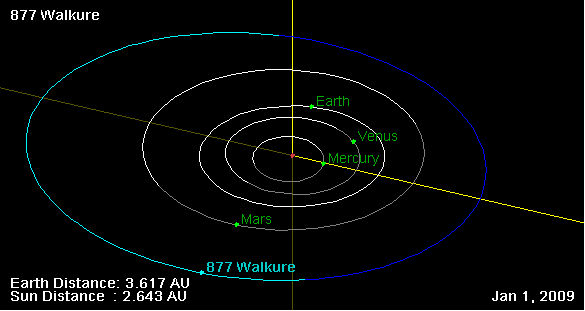 877 Walküre orbit, and his position on 01 Jan 2009 (NASA Orbit Viewer applet)